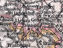 Detail from a map of Silesia.